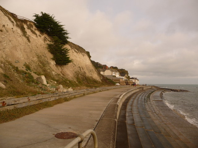 Bonchurch: looking along Horseshoe Bay towards Shore Road A view in the opposite direction to 1572288. Next to the houses in the distance, Shore Road provides the access, steeply down the cliff from just to our left.